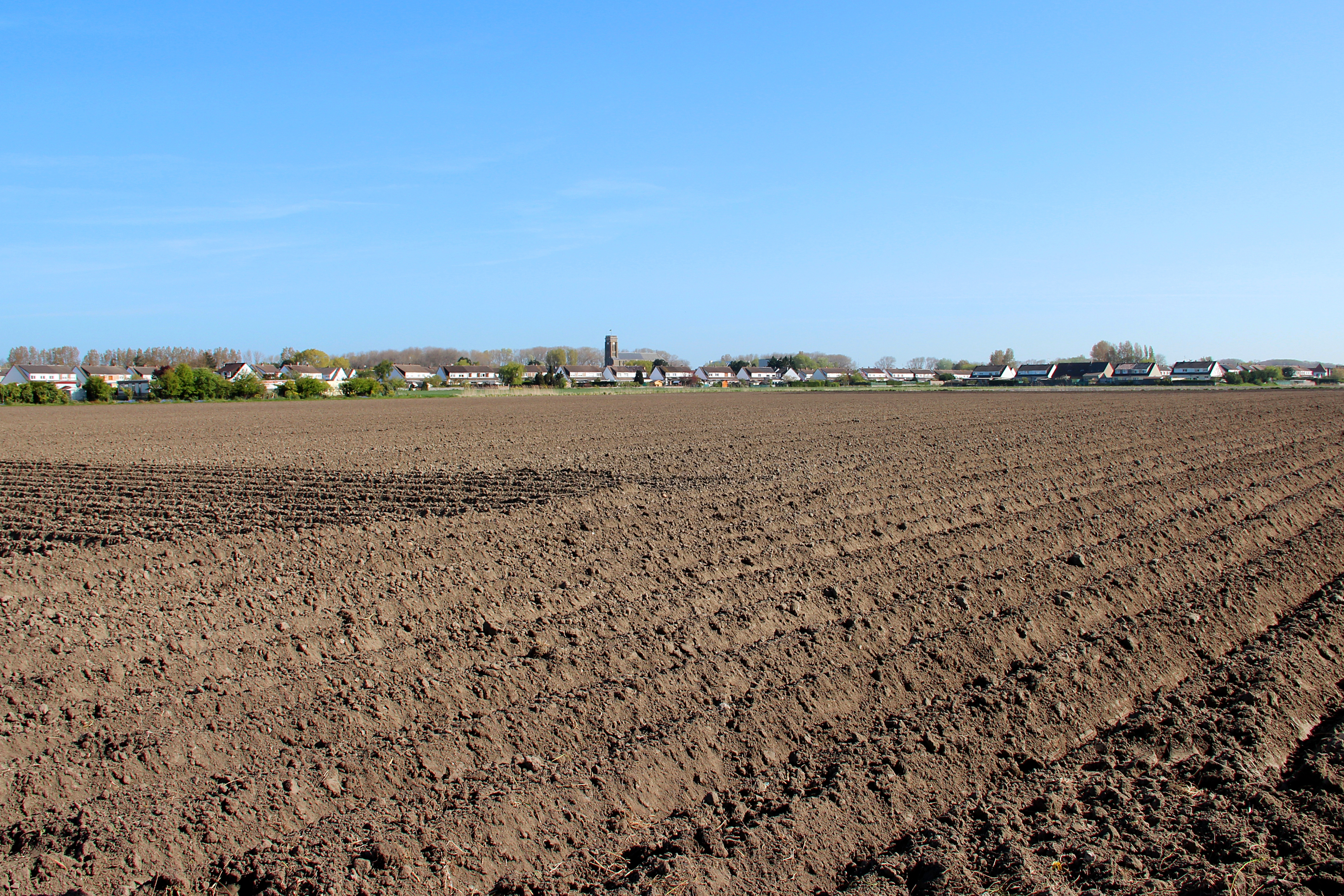 Panorama of the commune of Bray-Dunes seen from Pierre Decok street (Nord department, France).